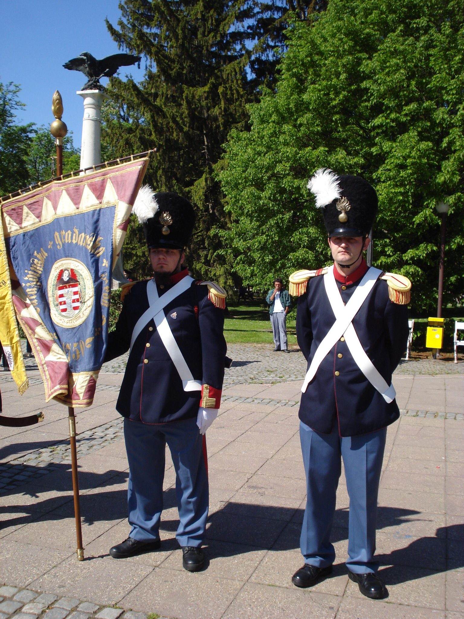 "Purgars - Varaždin Civil Guard", a historical military unit from the Town of Varaždin, Croatia, during The Medjimurje County Day celebration (30th April 2012) in Čakovec